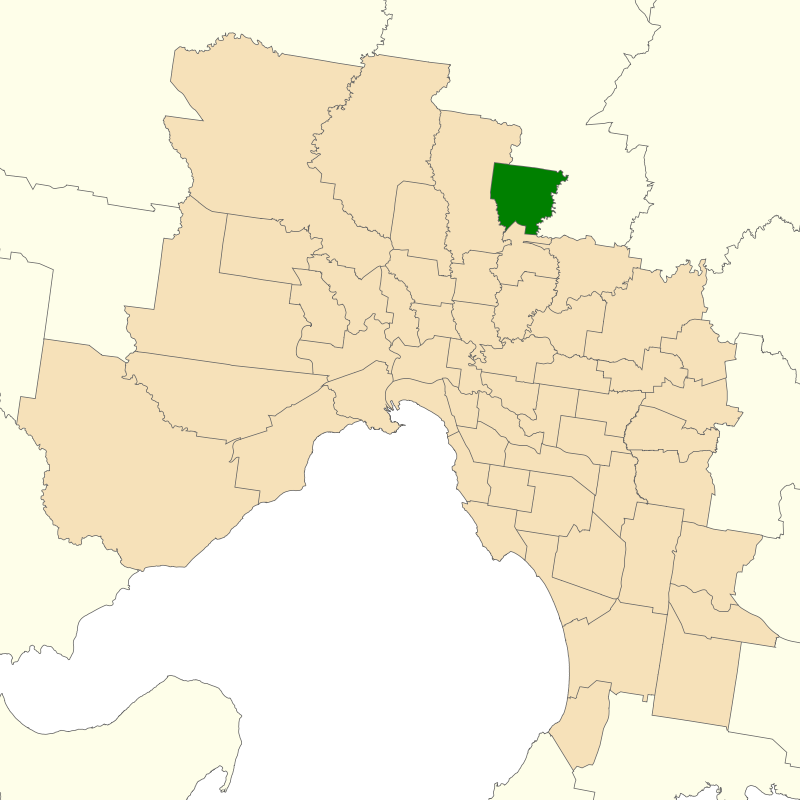 Location of the Victorian electoral district of Mill Park (dark green) in the Greater Melbourne area.